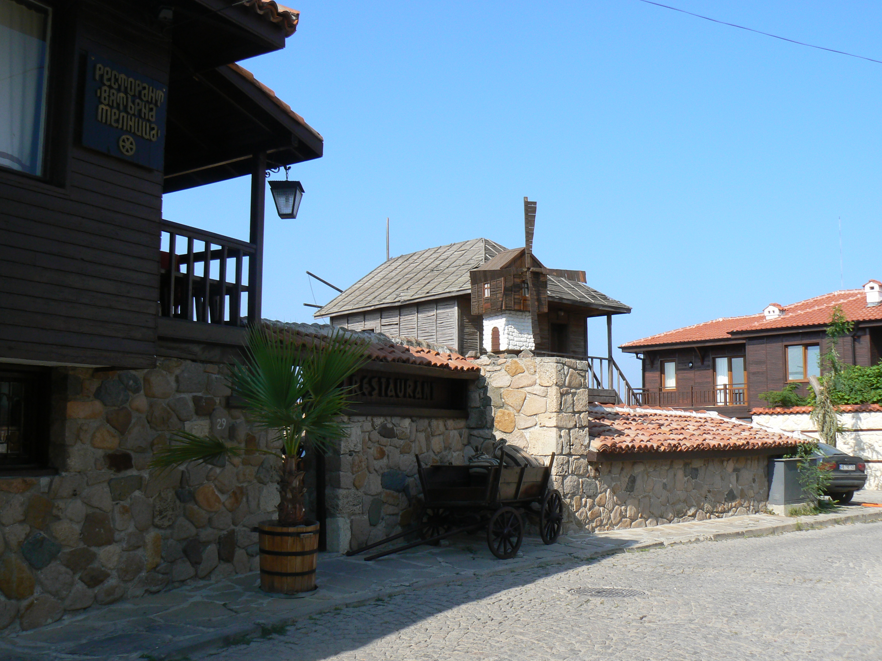 The Old Town in Sozopol, Bulgaria